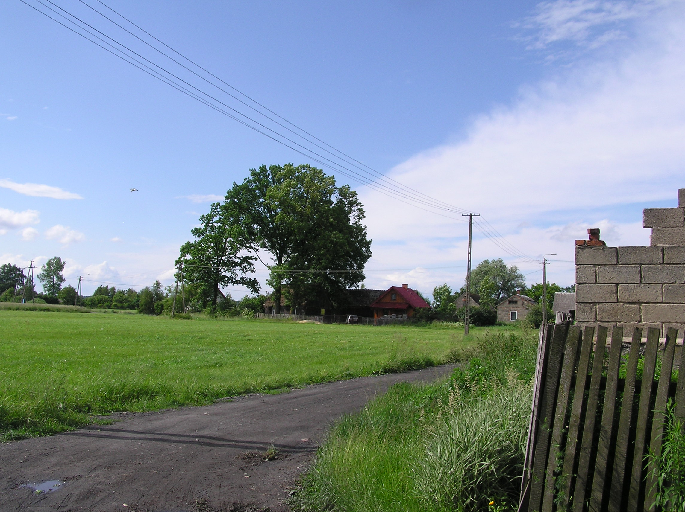 Złoczew (Poland, Łódź Voivodeship, Sieradz County), Starowiejska Street